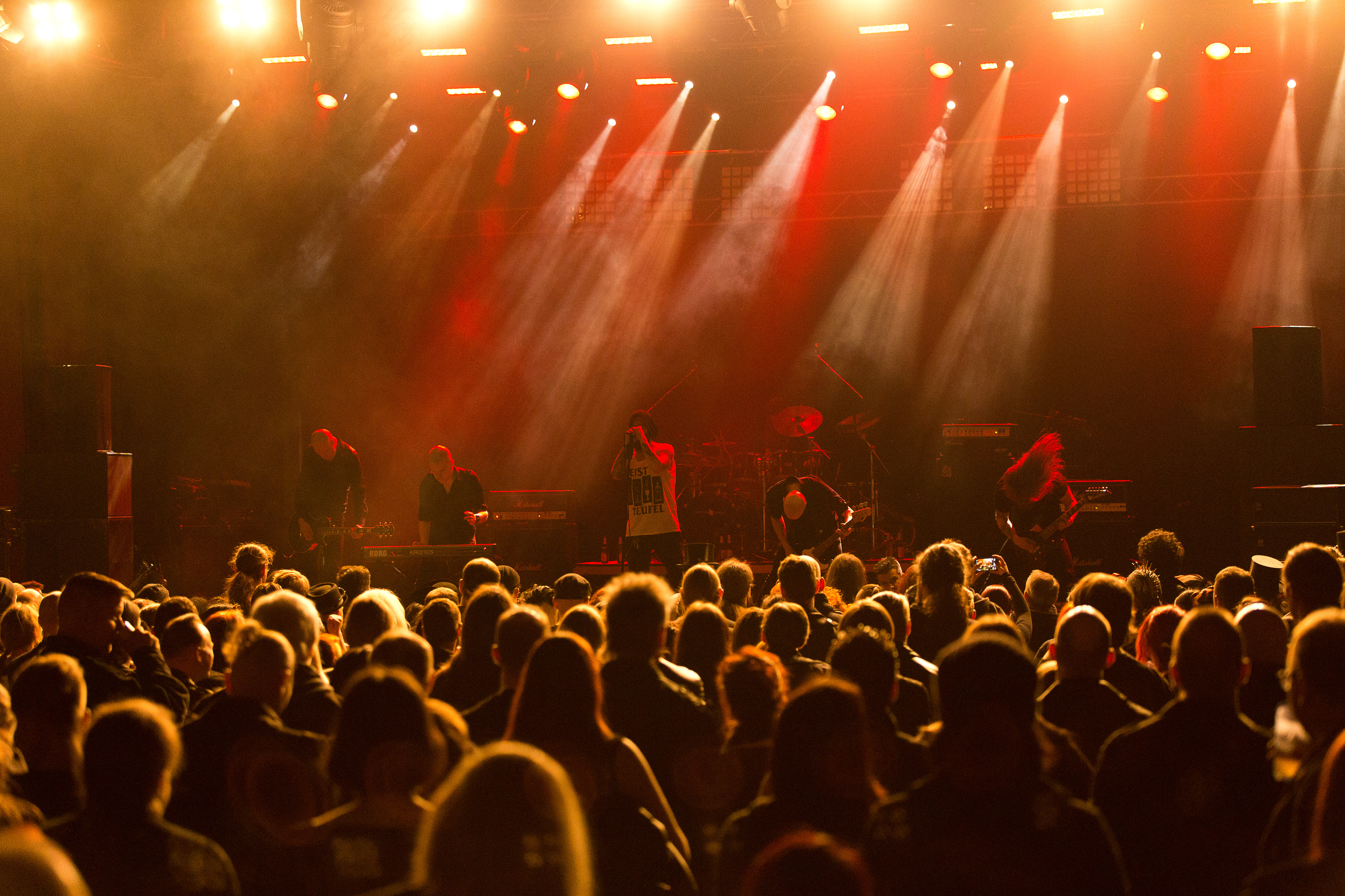 The Finnish melodic death/doom metal band Swallow the Sun at the 25. Wave-Gotik-Treffen 2016 in Leipzig/Germany.